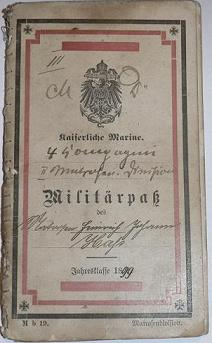 Picture of the Kaiserliche Marine Militaerpass document, taken by me, Marcin Lewoszewski (owner of the document), on 1st Feb 2007.